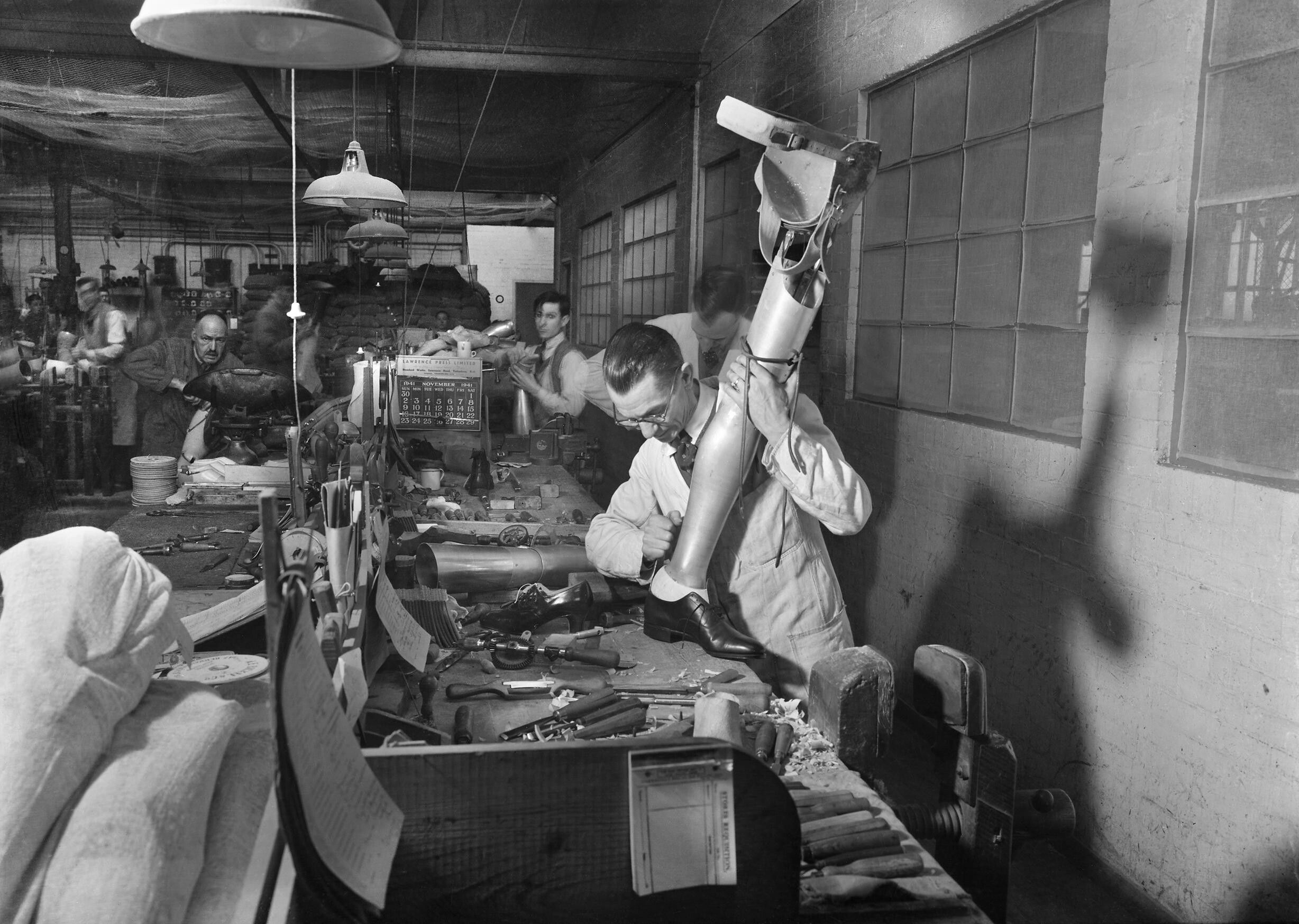 A Visit To the Artificial Limbs Factory, Queen Mary's Hospital, Roehampton, November 1941 A technician works on the construction of an artificial leg at Queen Mary's Hospital, Roehampton.